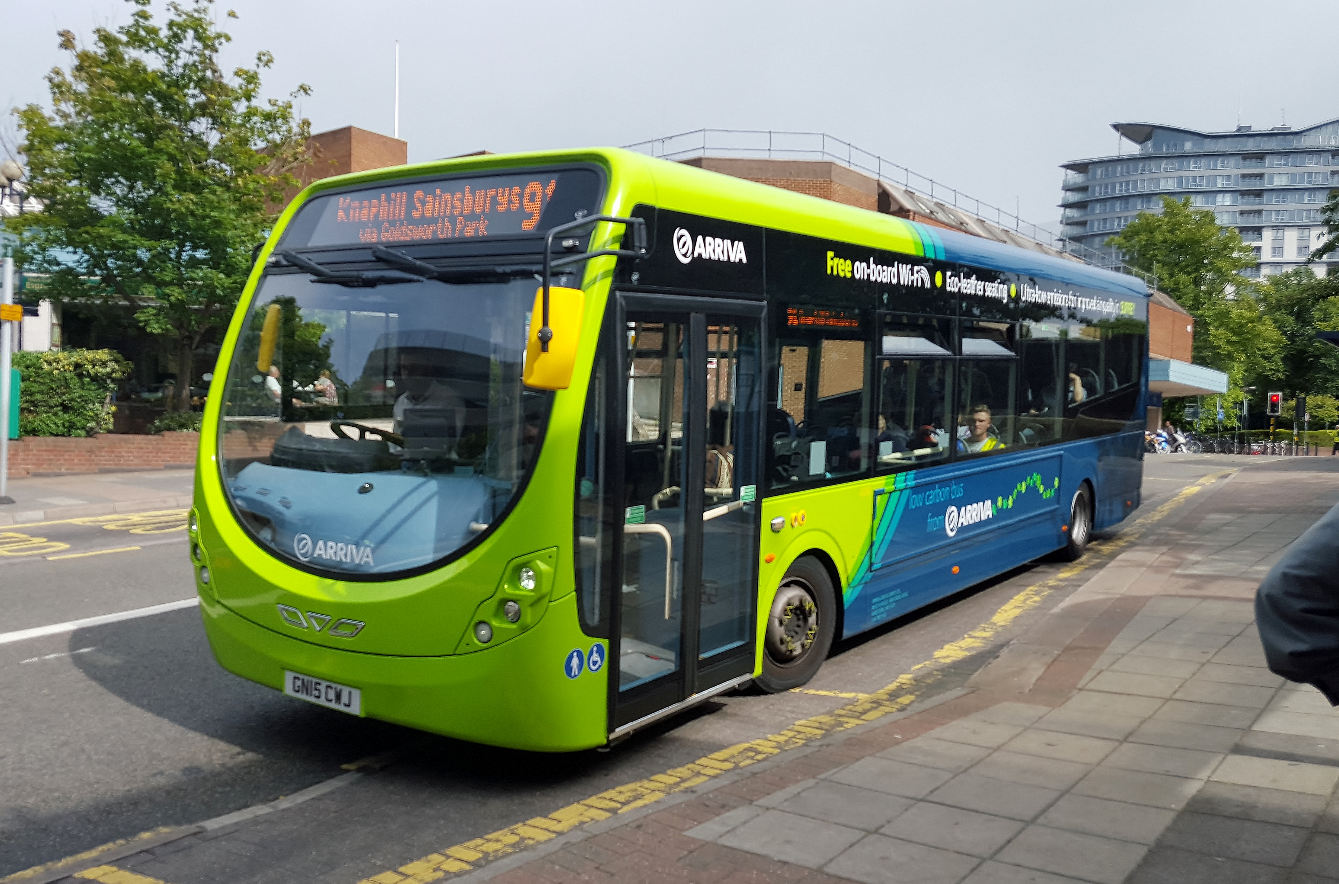 Wright StreetLite #4290 operated by Arriva Guildford and West Surrey.